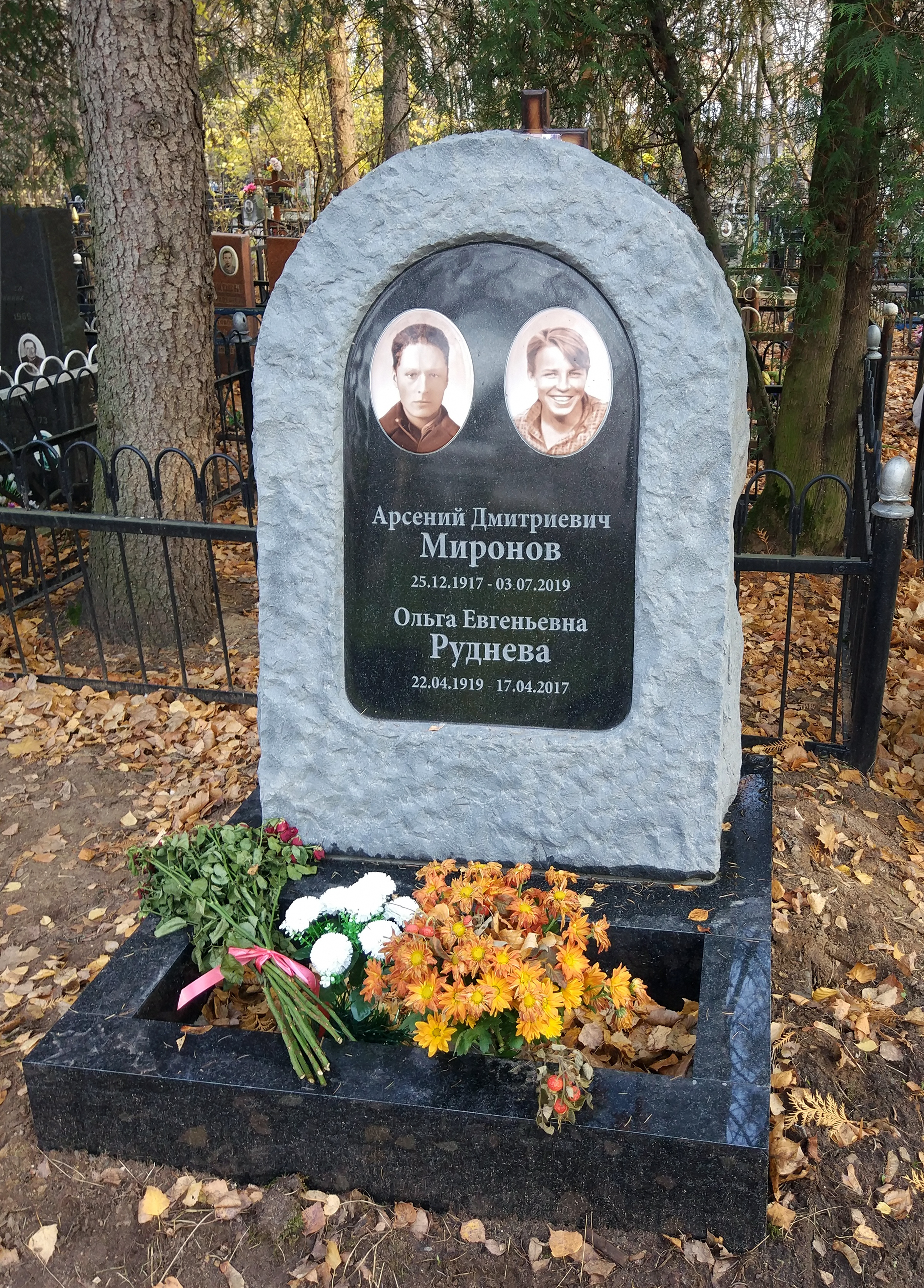 Photo taken in 2019